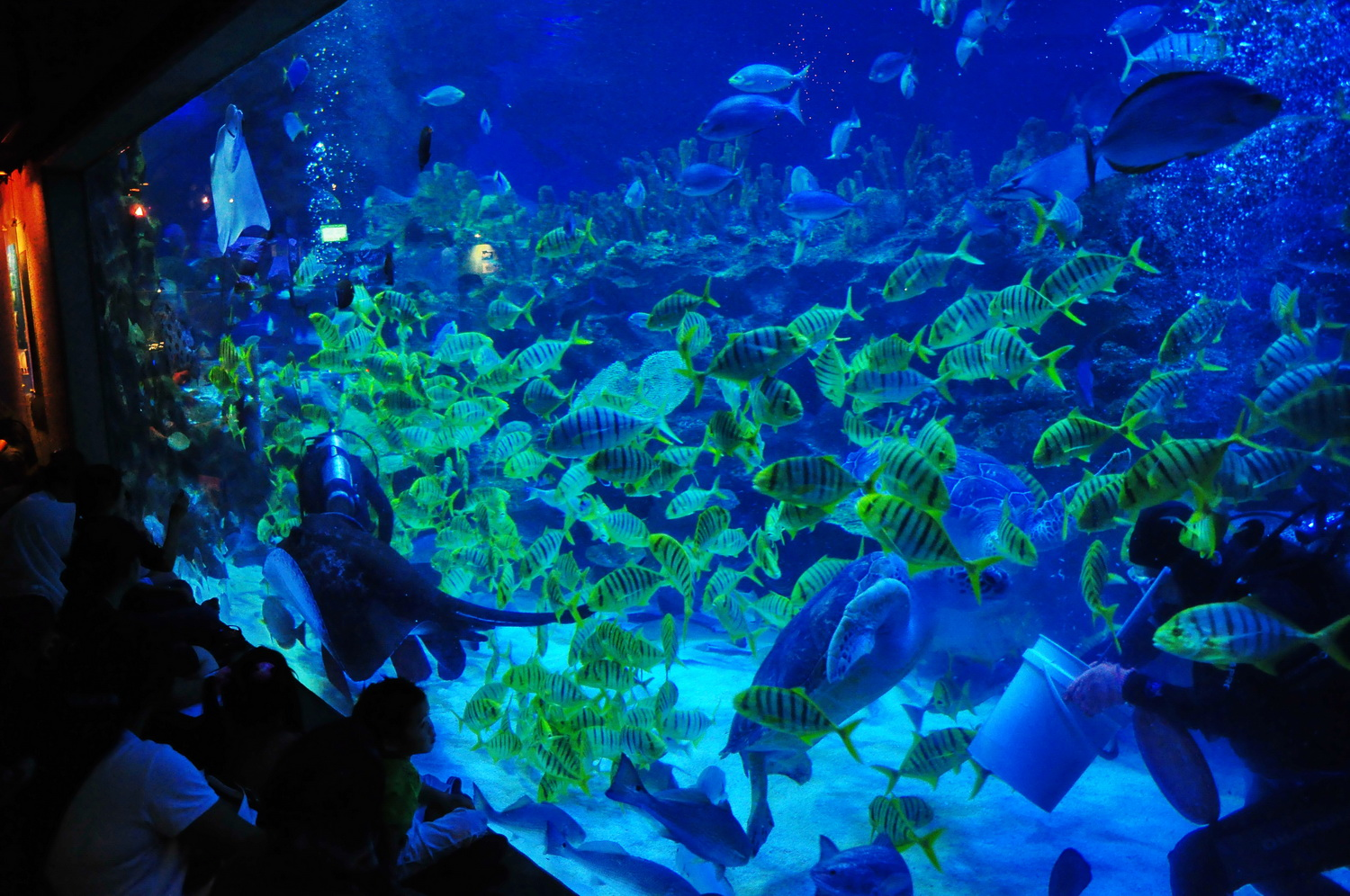 Aquaria KLCC, feeding time in the fish tank